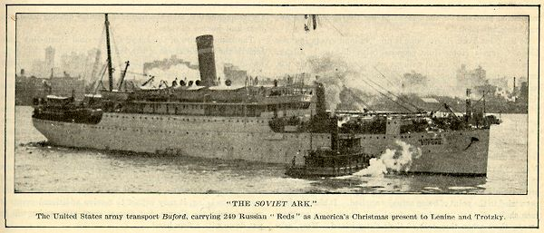 "The Soviet Ark" Literary Digest, 1/3/20. Originally from the Press Illustrating Service. Used in December 1920 for the deportation of 249 socialists and anarchists to soviet russia.